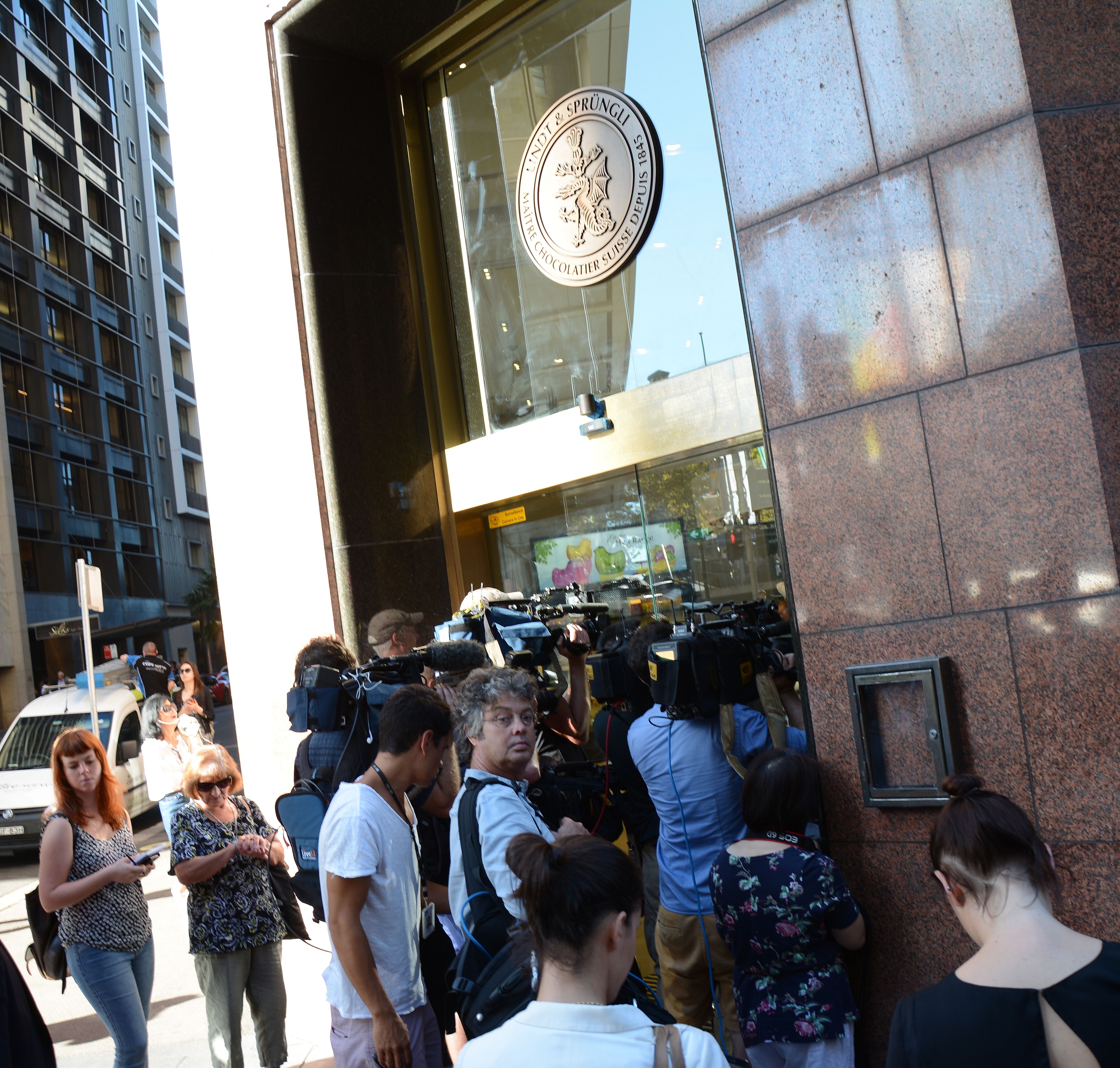 Media outside Lindt Café before official reopening, 20 Mar 2015, Martin Place, Sydney